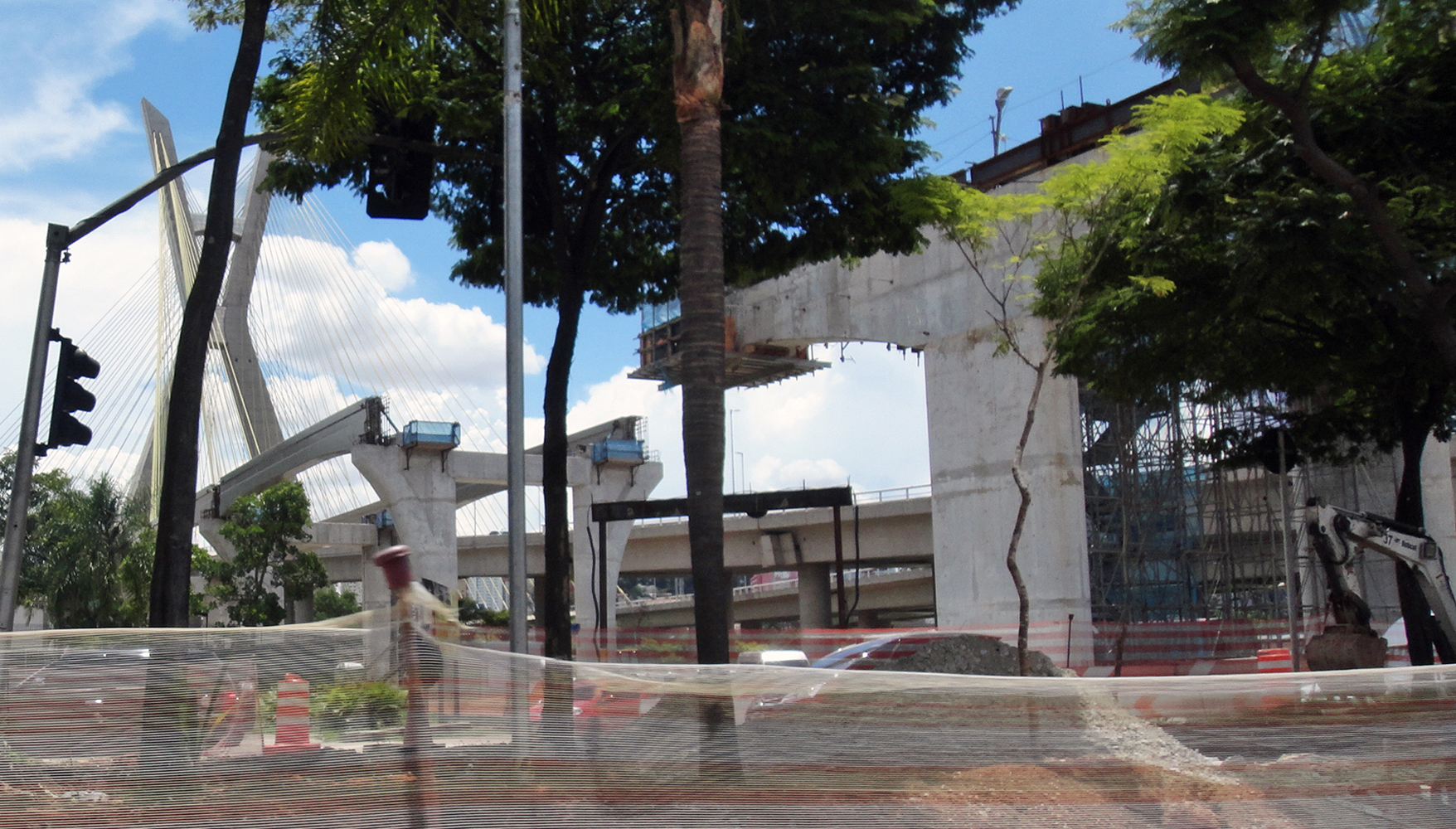 Construction Linha 17-Ouro Monorail (Monotrilho) as part of the Metro São Paulo subway network, São Paulo, Brazil. Shown the section parallel to Jornalista Roberto Marinho Avenue, approaching the bridge Octavio Frias de Oliveira, Pinheiros river.